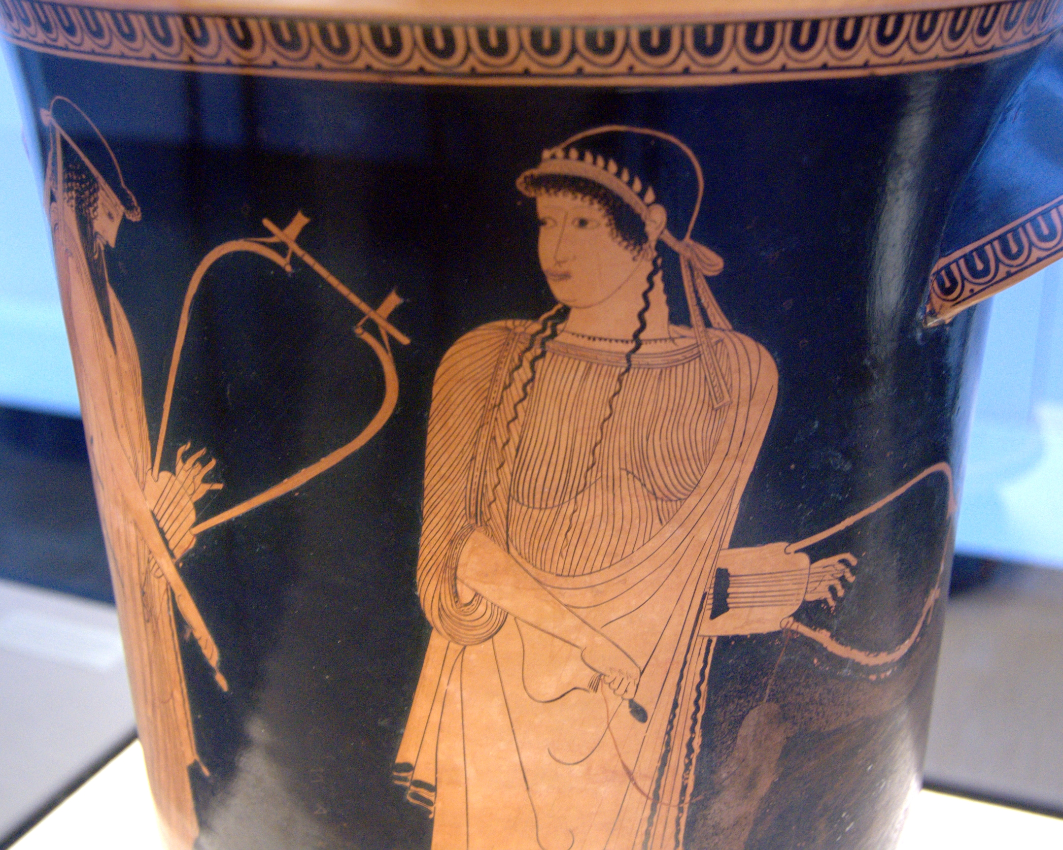 Alcaeus and Sappho. Side A of an Attic red-figure kalathos, ca. 470 BC. From Akragas (Sicily).